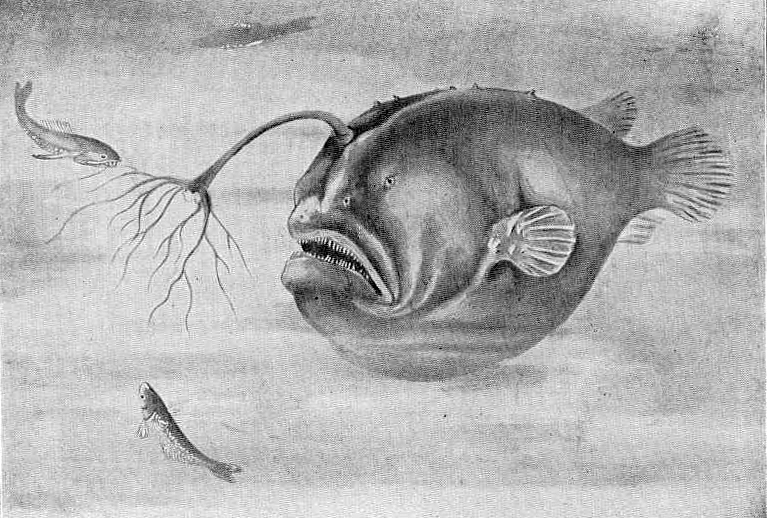 Corynolophus reinhardti (Lütken), showing luminous bulb... Family Ceratiidae. Deep sea off Greenland Subject: Anglerfishes Tag: Fish